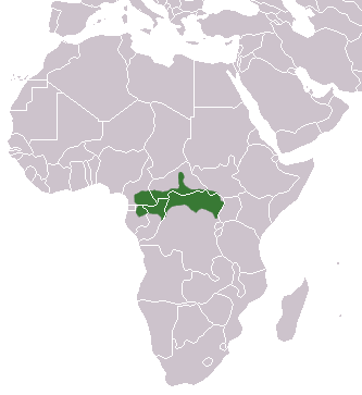 Agile Mangabey (Cercocebus agilis) range